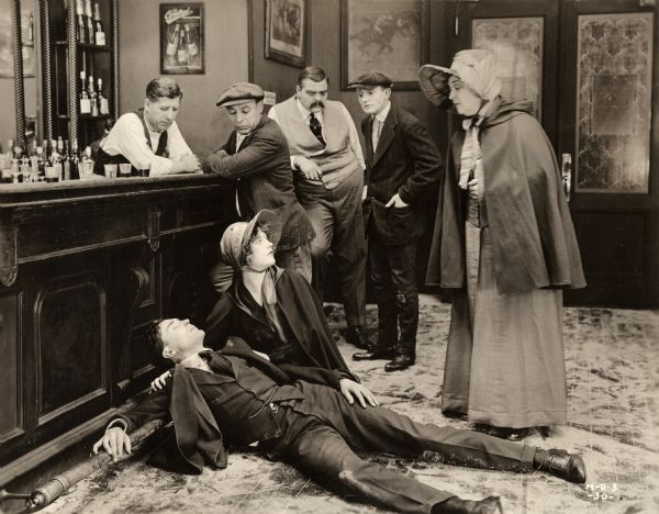 Jack Bronson (played by Raymond Bloomer) has been beaten senseless in an underworld bar. Violet Gray (played by Marion Davies dressed in a Salvation Army uniform) kneels beside him to offer aid in a scene still from the 1919 silent drama The Belle of New York (1919).